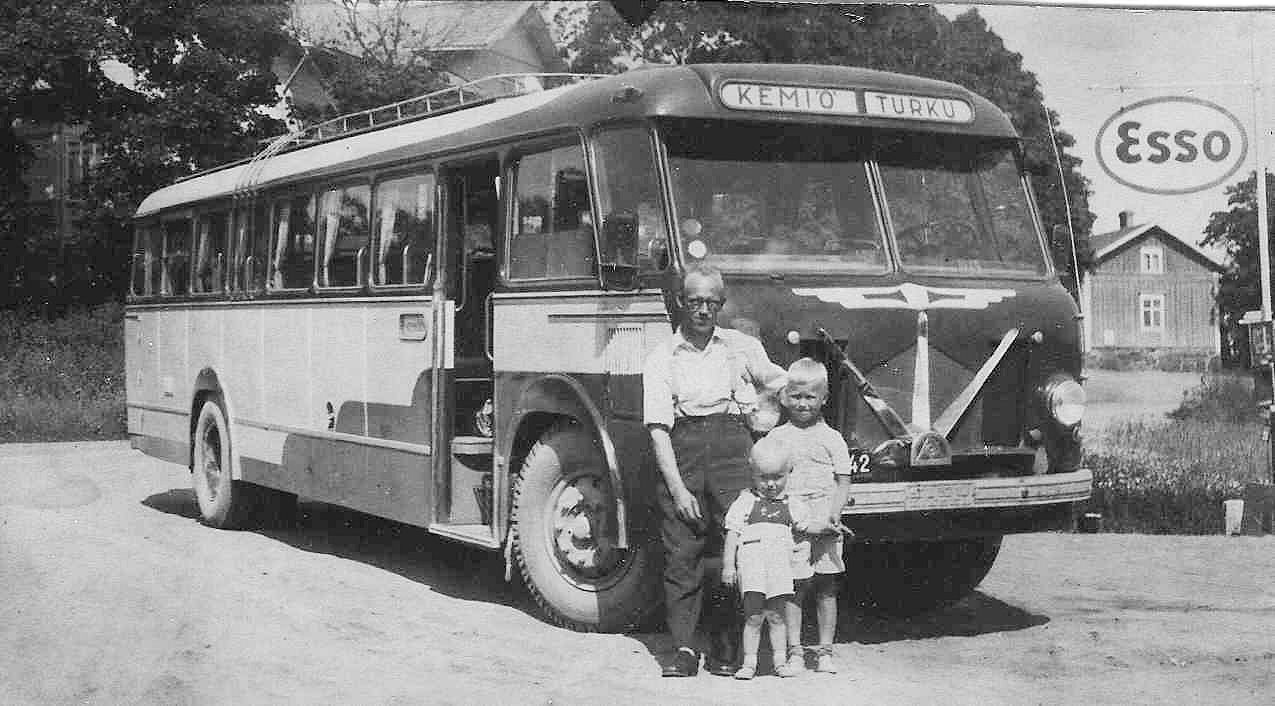 Old Sisu bus year 1954